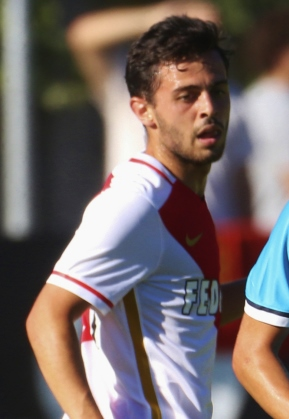 Bernardo Silva